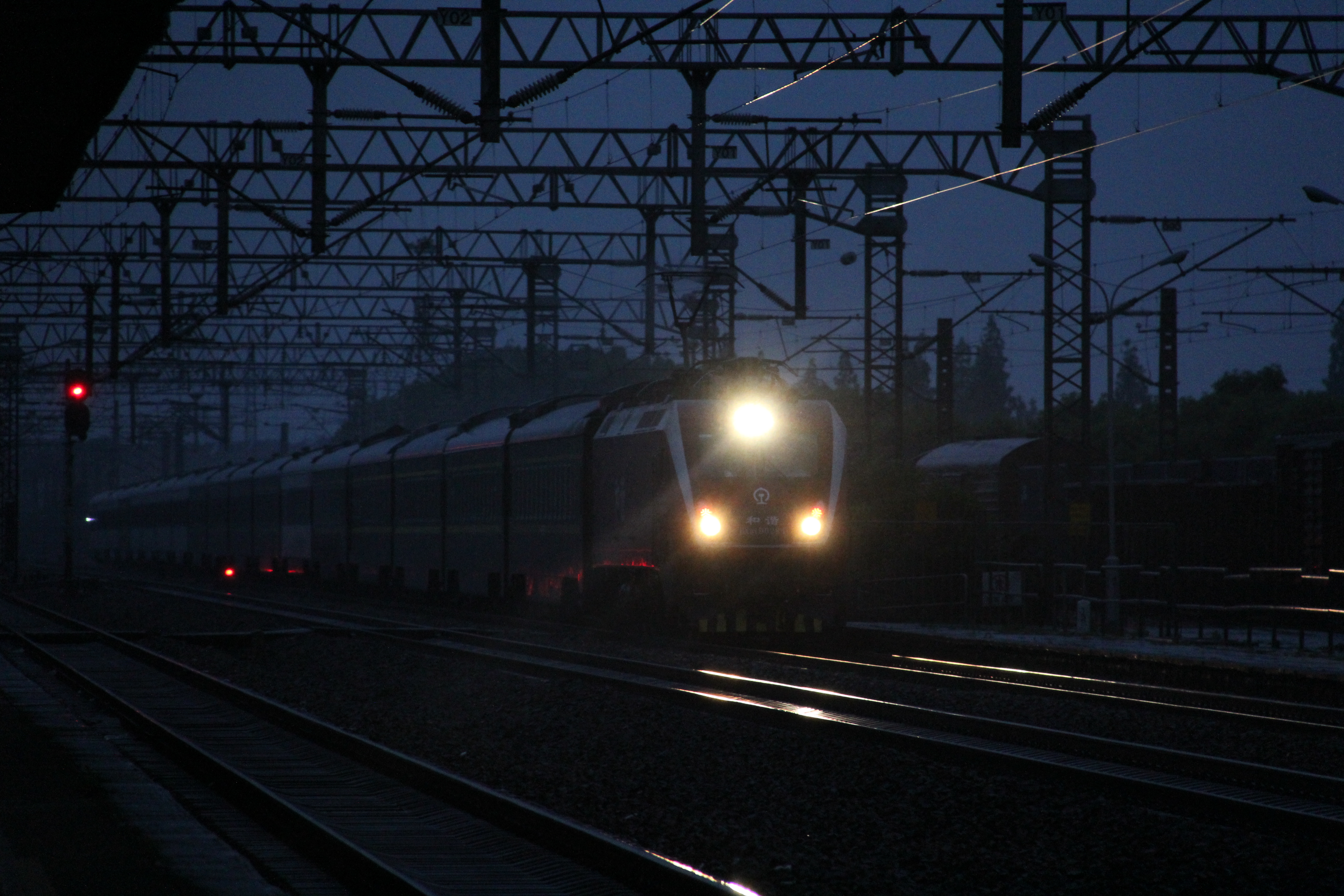 201605 Z8̝6 passes Jiashan Station